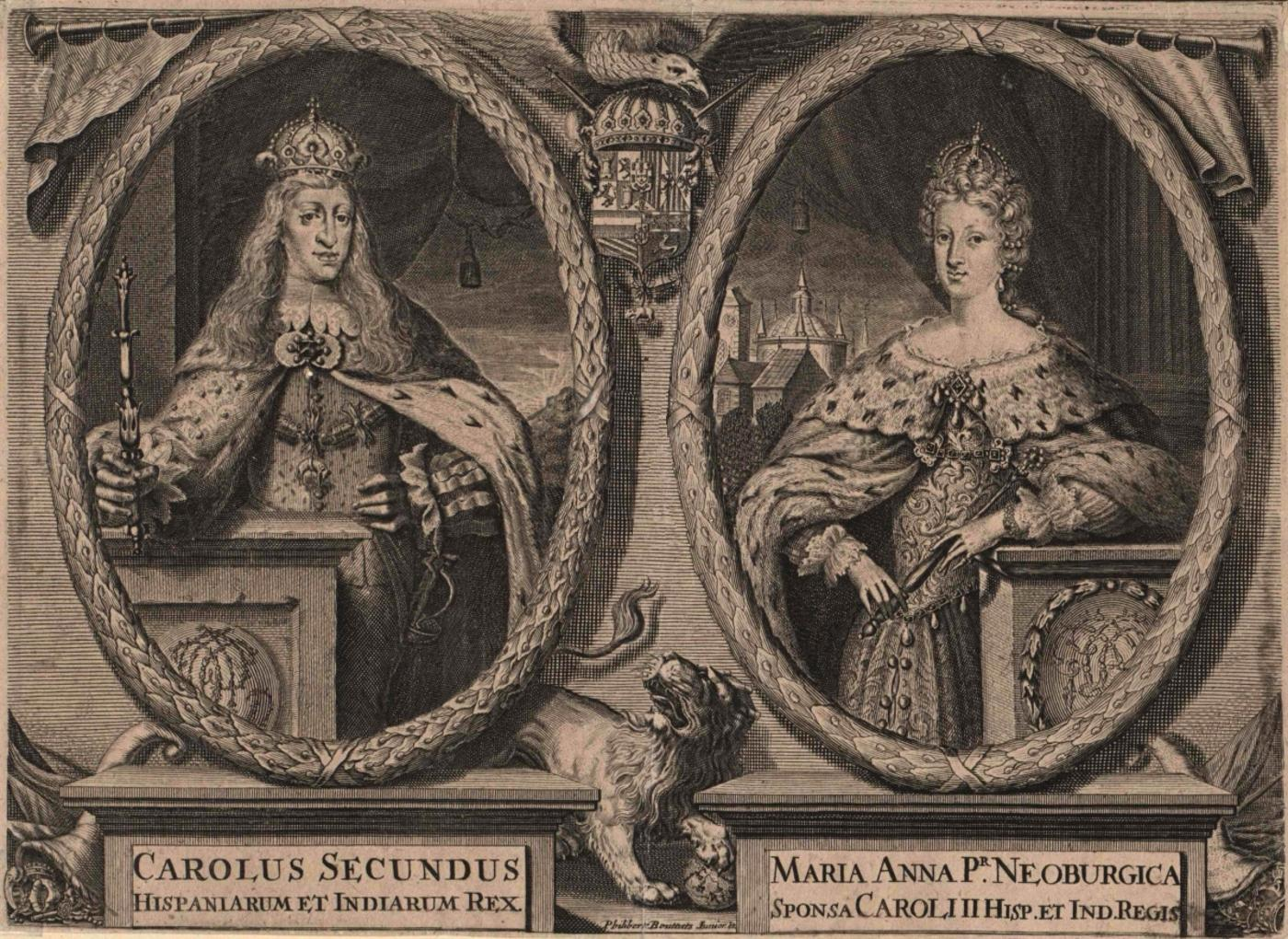 Drawings of Charles II of Spain with his second wife Princess Maria Anna of Neuburg